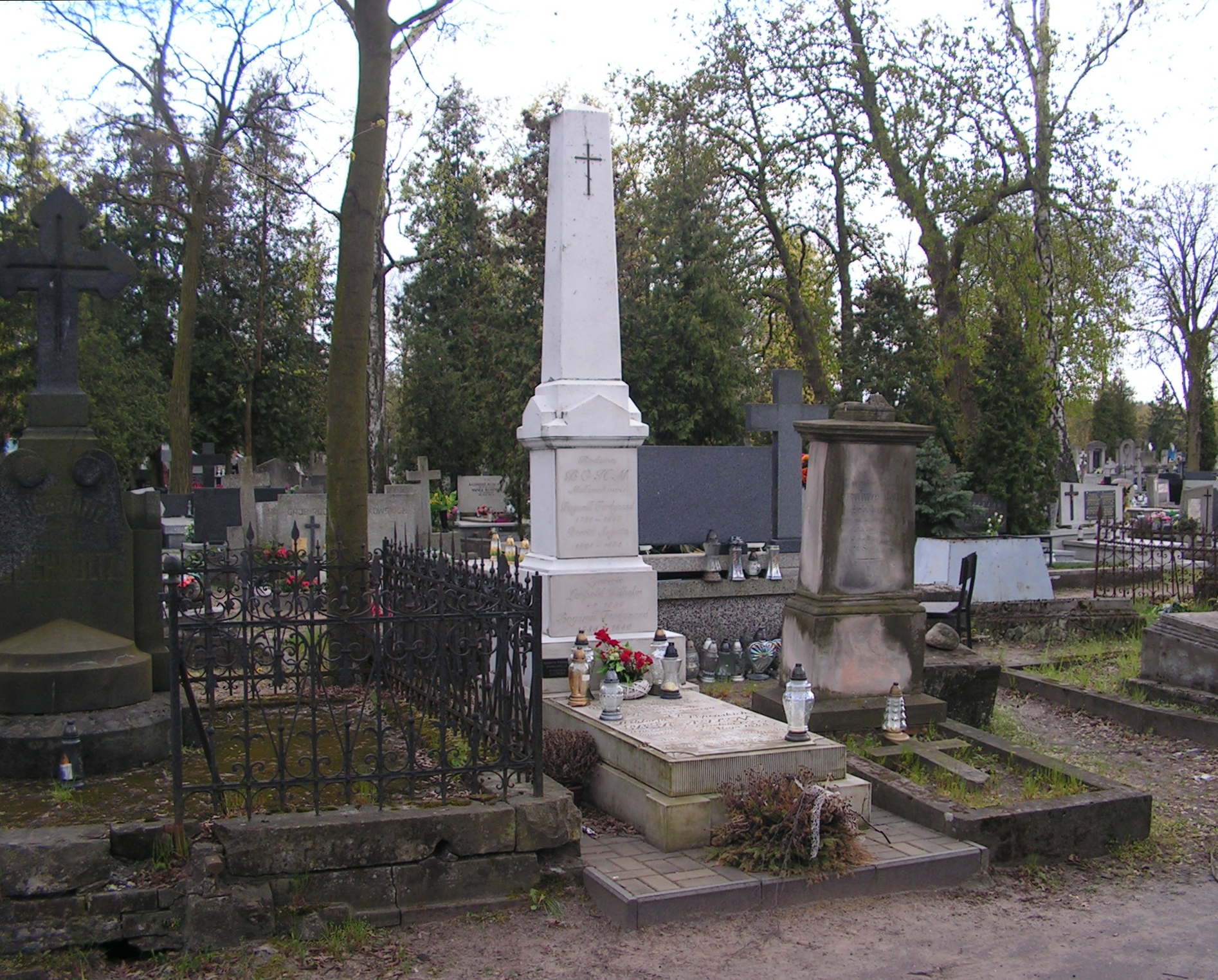 Grave of Bohm family on Communal Cemetery in Włocławek.